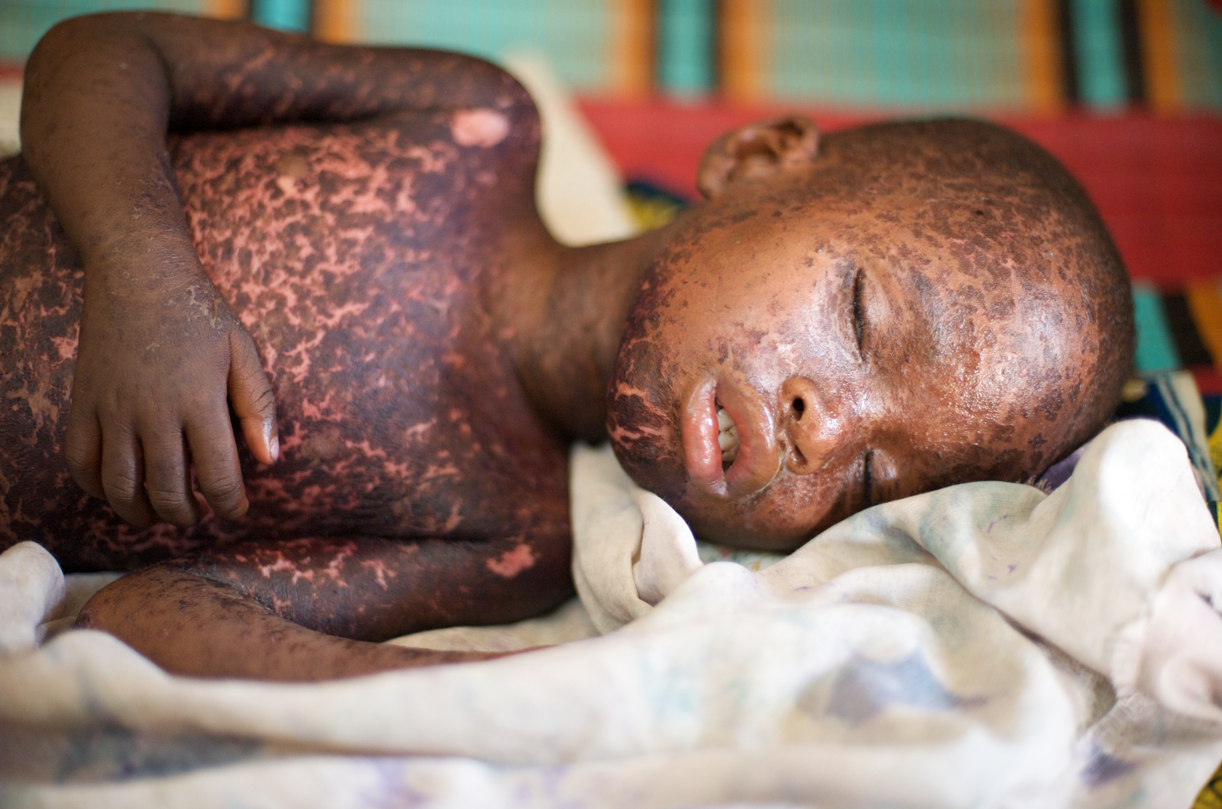 Over 800 children have fall ill with measles in the last two months, it is a major epidemic. In the developed world measles is a minor inconvenience, in a country like Guinea it is often fatal. Measles is preventable, a well functioning routine vaccination programme should prevent epidemics breaking out, and should an epidemic occur an emergency response should prevent it becoming generalised. However Guinea has been going economic and political turmoil since 2006 that has weakened the health services. As a result the routine vaccination is no longer fully effective, hence the current epidemic. The government, UNICEF, WHO and other actors got together to conduct a country wide campaign from November 20 to 26th to vaccinate against measles combined with the distribution of bed nets against malaria and vitamin a and deworming tablets to minimise malnutrition. I spent the day visiting a hospitals, health centres and vaccination points to better understand what needs to be done. The condition of the children in the hospital was critical. There is a local practice of treating fever with palm wine and ice water baths, partially this is because people believe it works and partly because they want to delay having to pay for medicine or treatment. This has the unfortunate result that many children who are referred to the hospital arrive at a very and dangerous state in the development of the disease, also the ice burns the skin of the children aggravating their condition. I spoke with the parents and children; they were confused and worried by what was happening to their children. The parents agreed to my taking photographs. Looking at the images I find them shocking; I do not know what is right to do. To not show them is to hide a reality about measles that people need to know about, to mobilise support. But it is not possible to be dignified when you have measles. One of the children that we saw died that night, it should have been avoided.